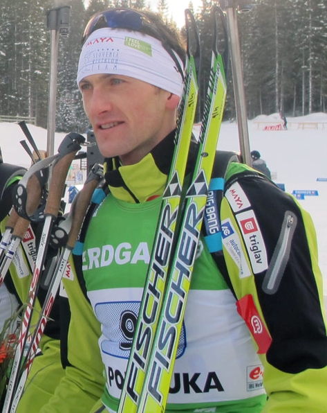 Jakov Fak at the Pokljuka biathlon world cup in 2010